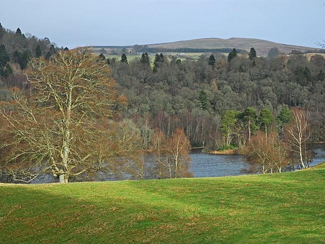 Eastern end of Loch Monzievaird The small island with scots pines growing on it may be a crannog